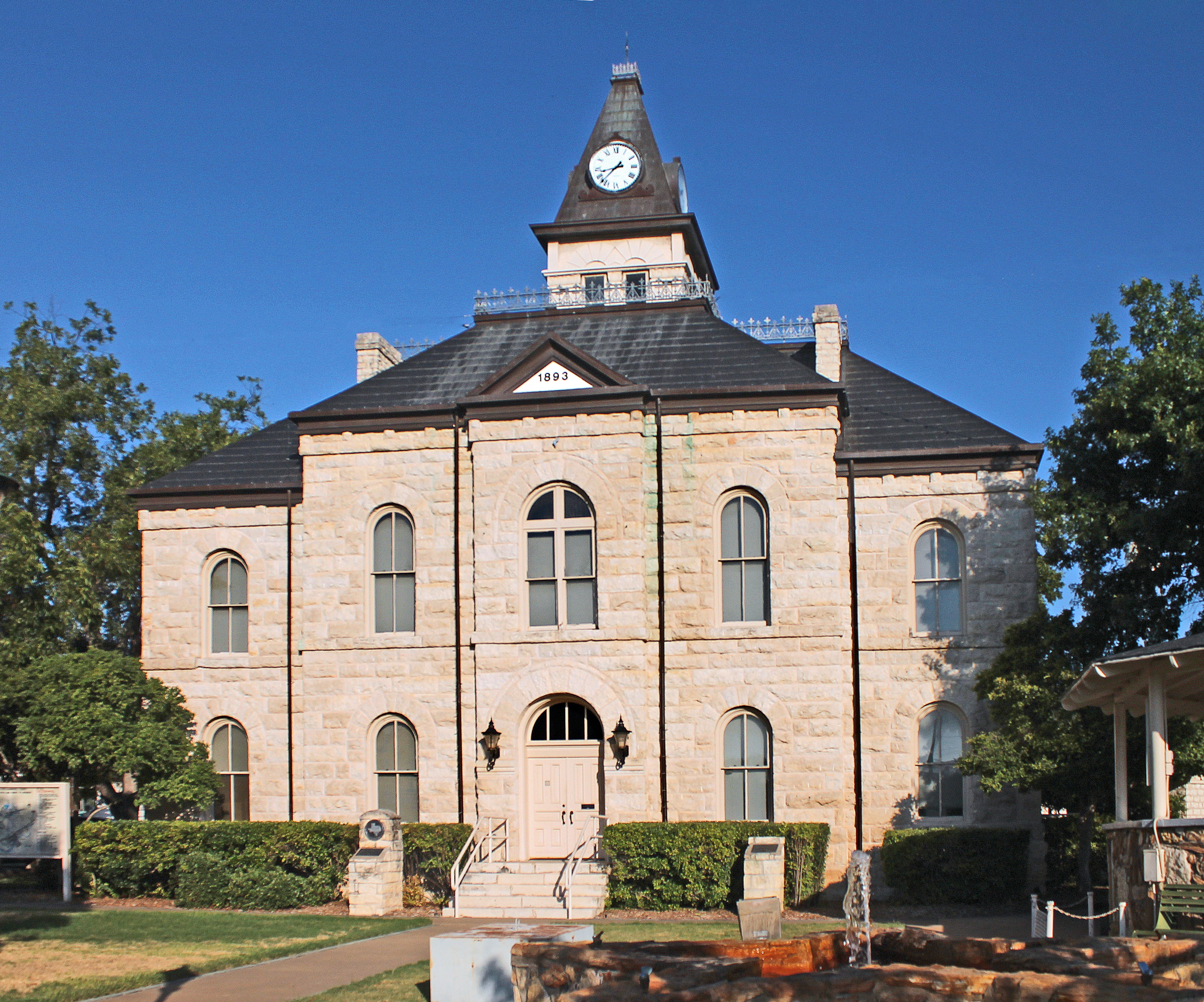 Somervell County Courthouse in Glen Rose, Texas